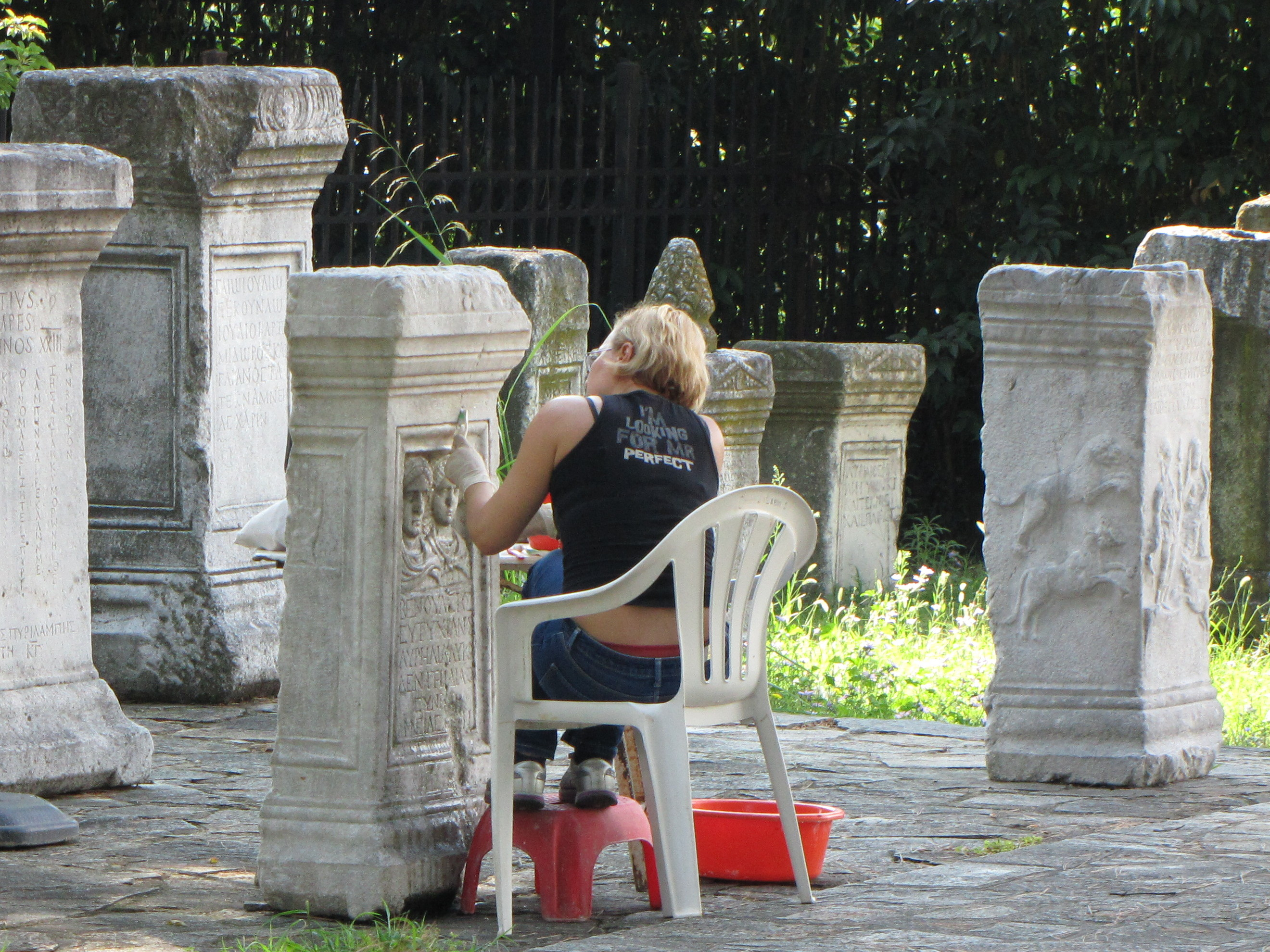 Dion, cleaning of finds